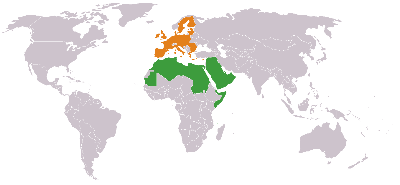 Arab League and European Union Map Locator